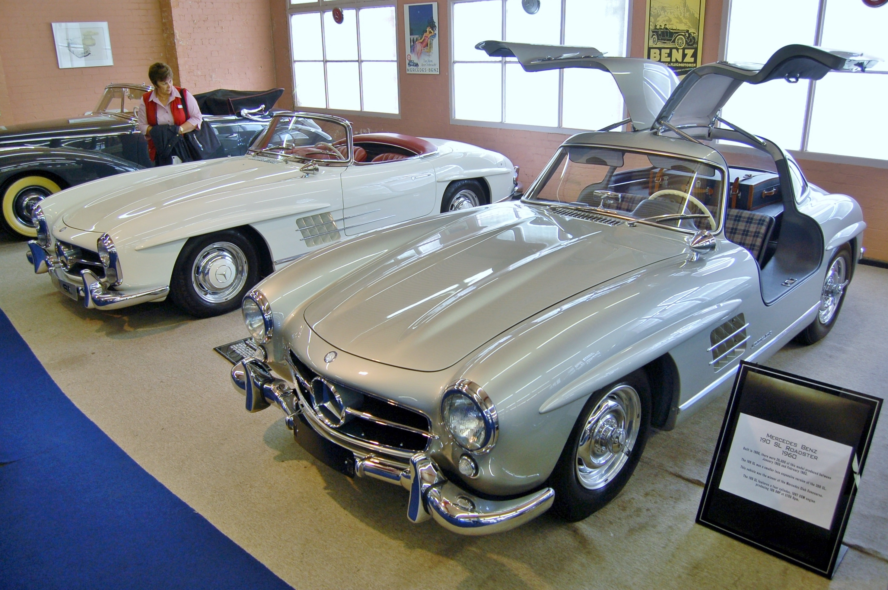 A pair of Mercedes-Benz 300 SLs on display at the Fox Classic Car Collection, Docklands, Vic, Australia. At left is a 1957 300 SL Roadster, and at right a 1956 300 SL Gullwing.